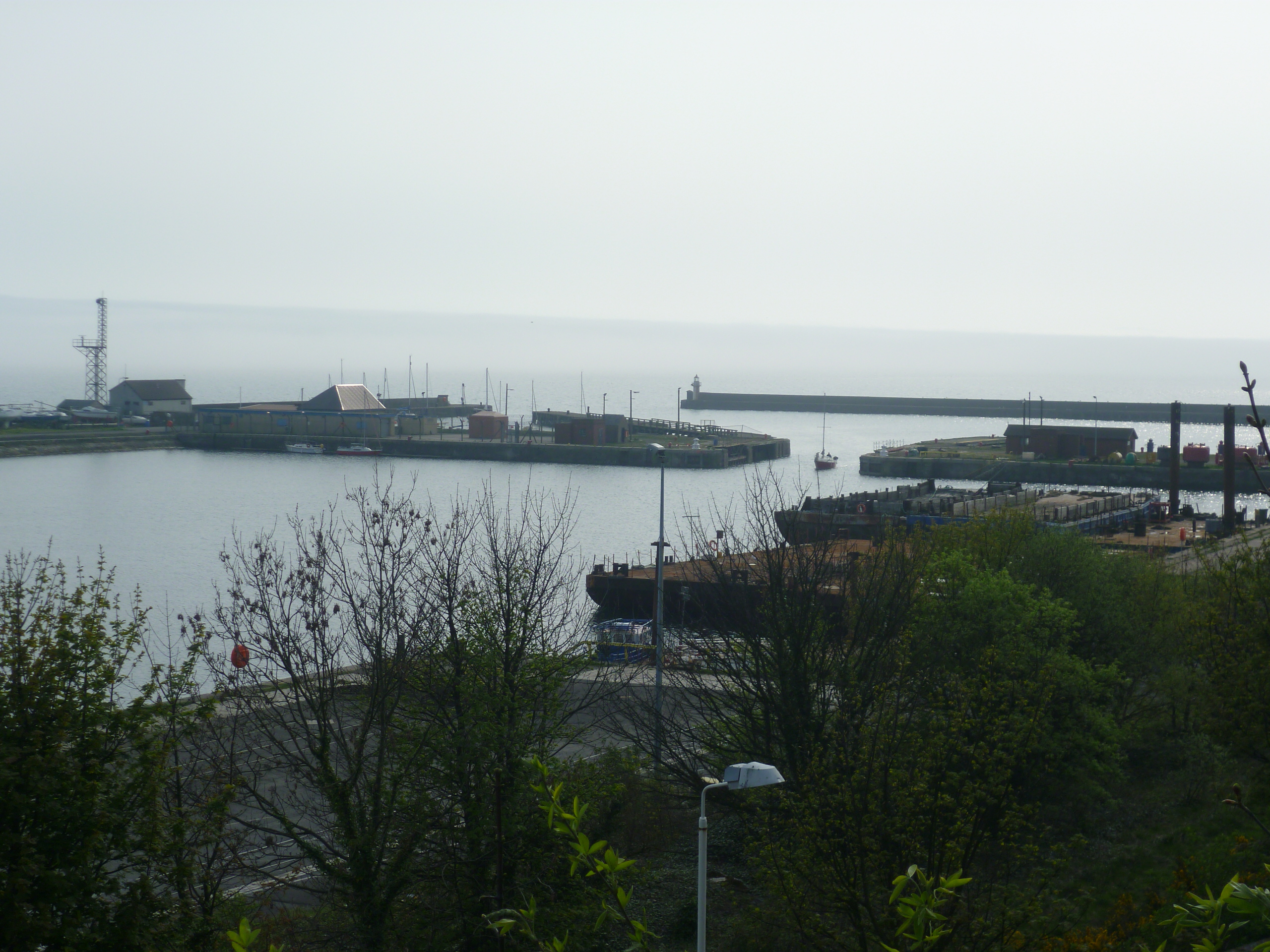 Burntisland Docks, Fife